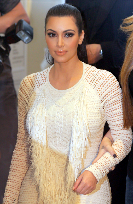 Kim Kardashian Get David Jones Tills Ringing, Chaos 2011.